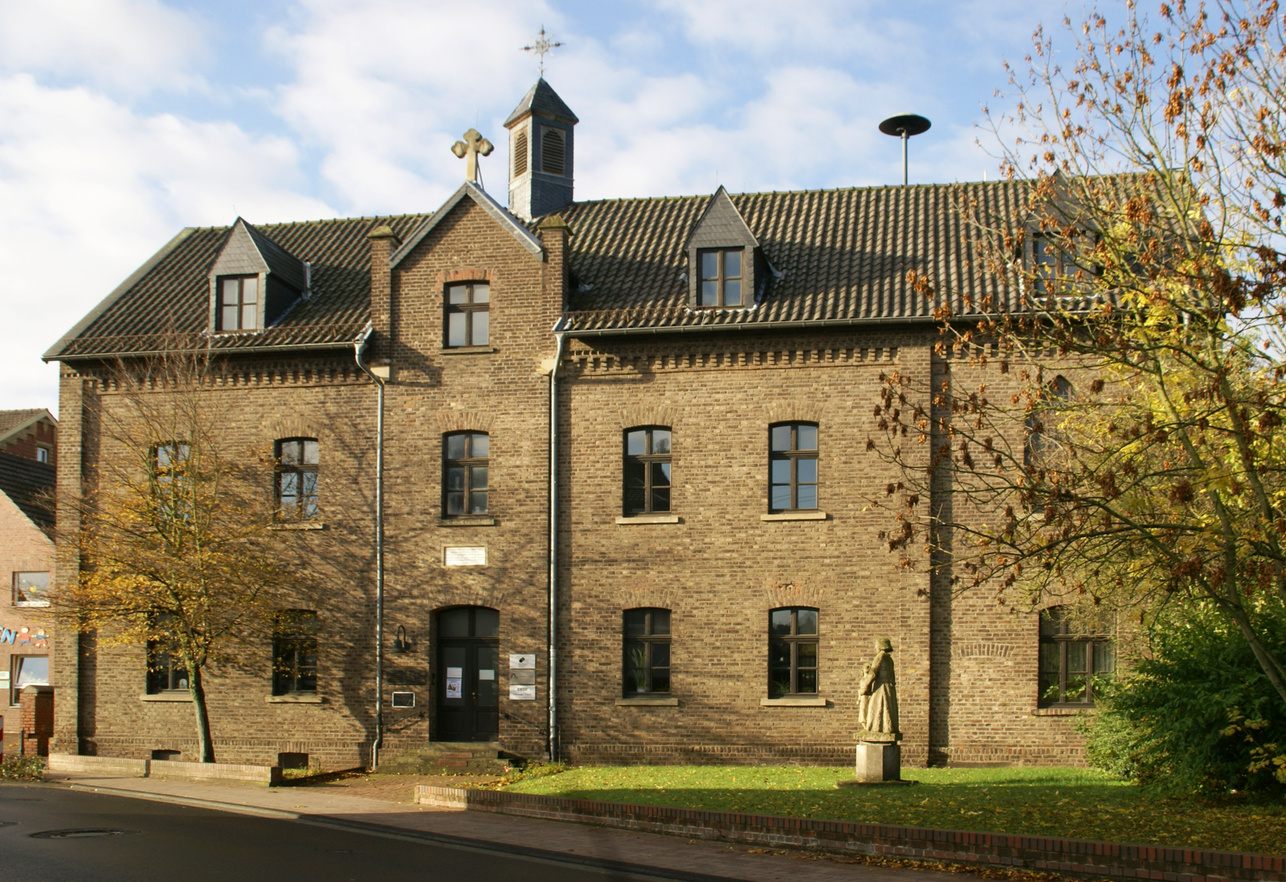 Former monastery in Heimerzheim, Kölner Straße 23